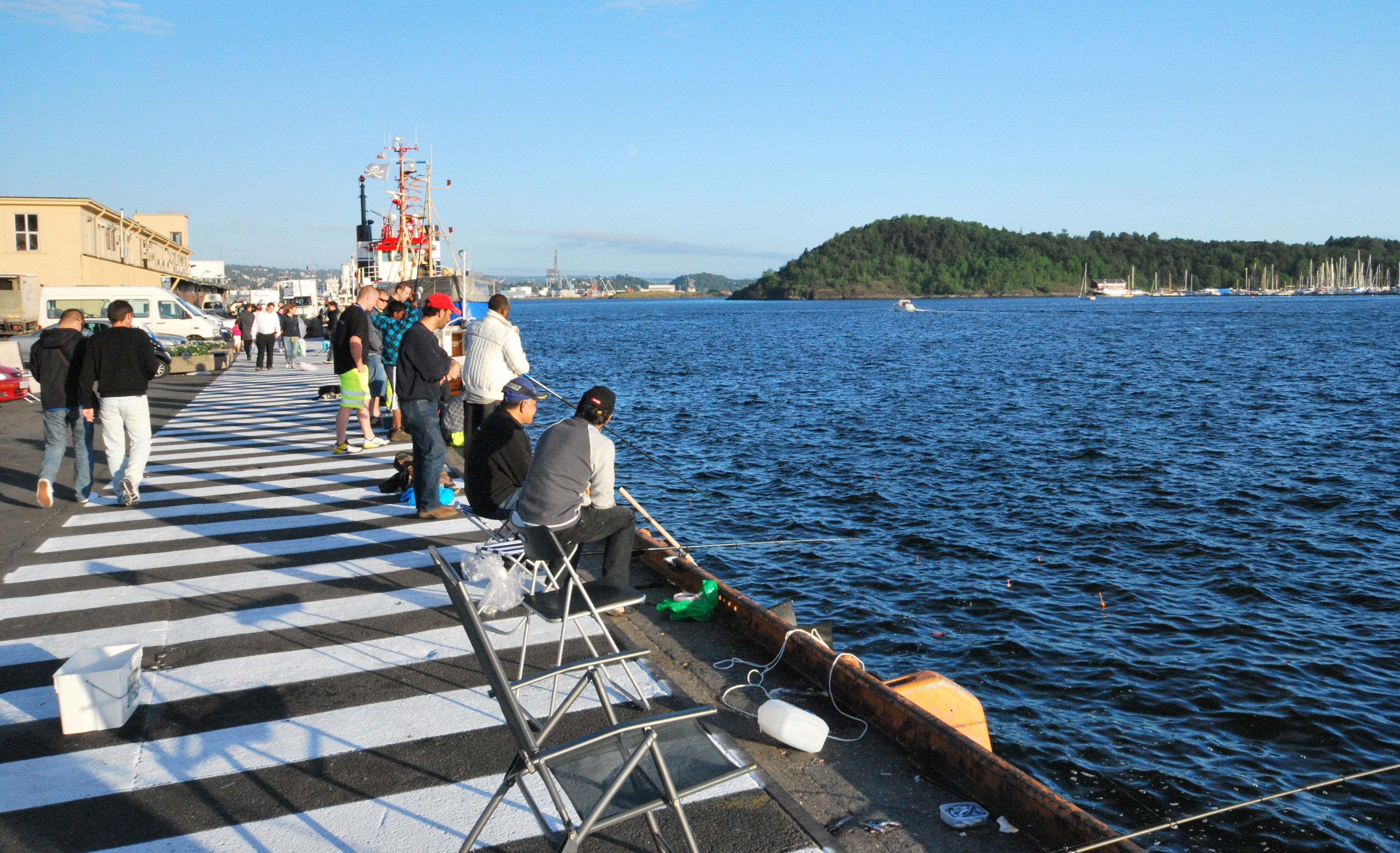 Vippetangkaia, Oslo